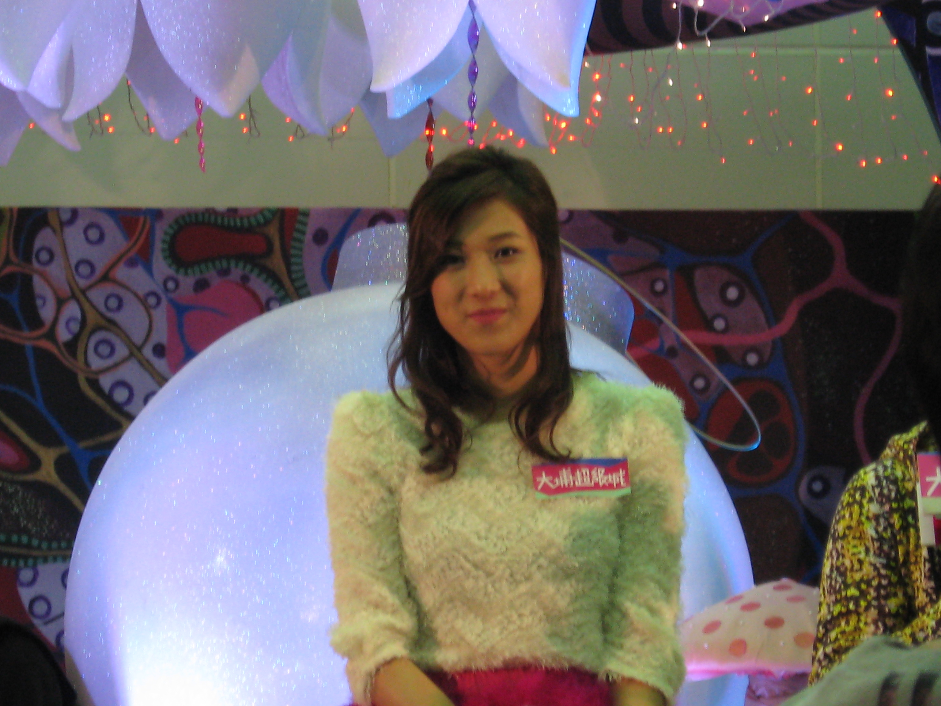 Linda Chung at Taipo